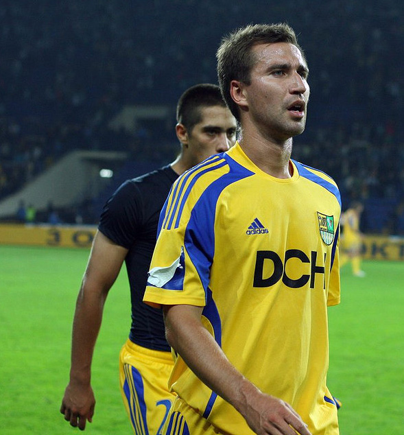 Jonathan Maidana and Marcin Burkhardt